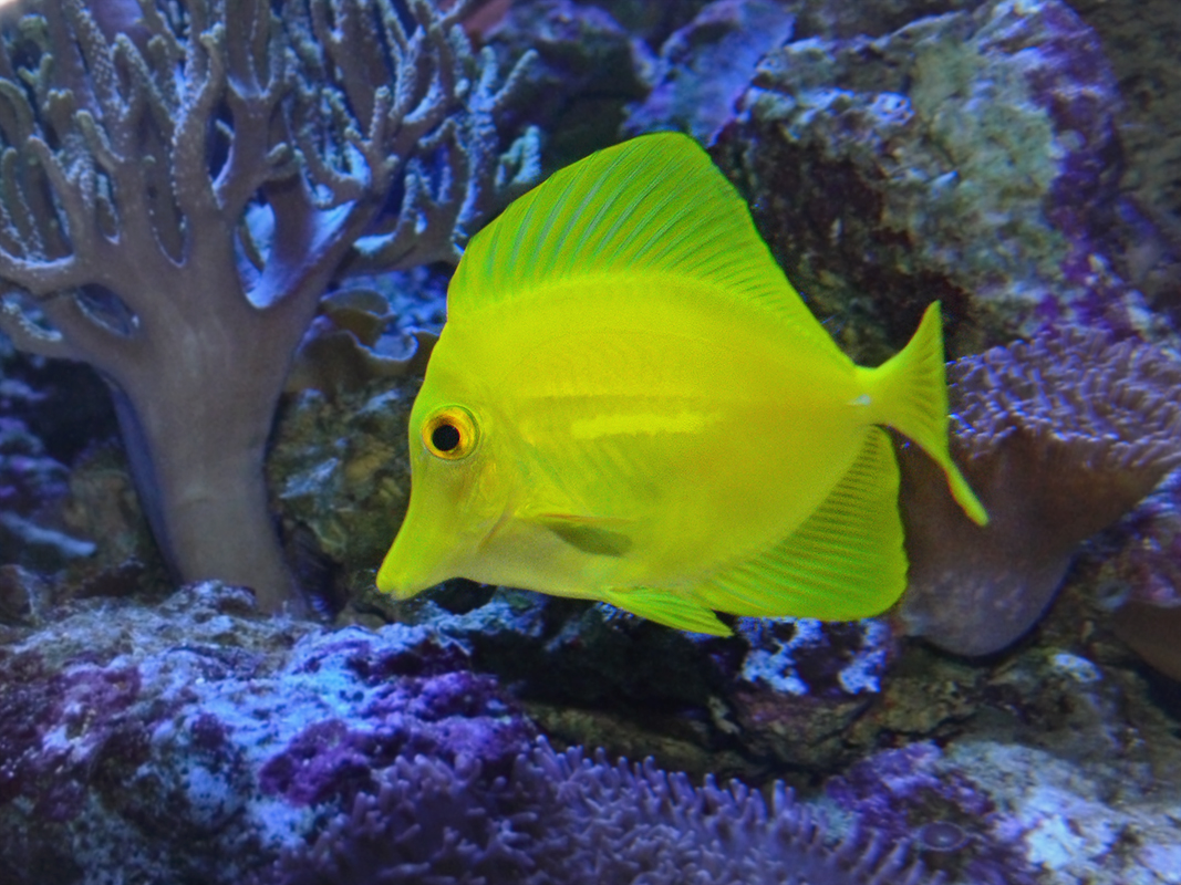 Yellow tang (Zebrasoma flavescens)